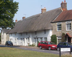 3–7 The Green, Stanford in the Vale, Oxfordshire (formerly Berkshire), seen from south-southwest. A row of thatched cottages, some 18th-century, others 16th- or 17th- century and rebuilt in the 18th century.